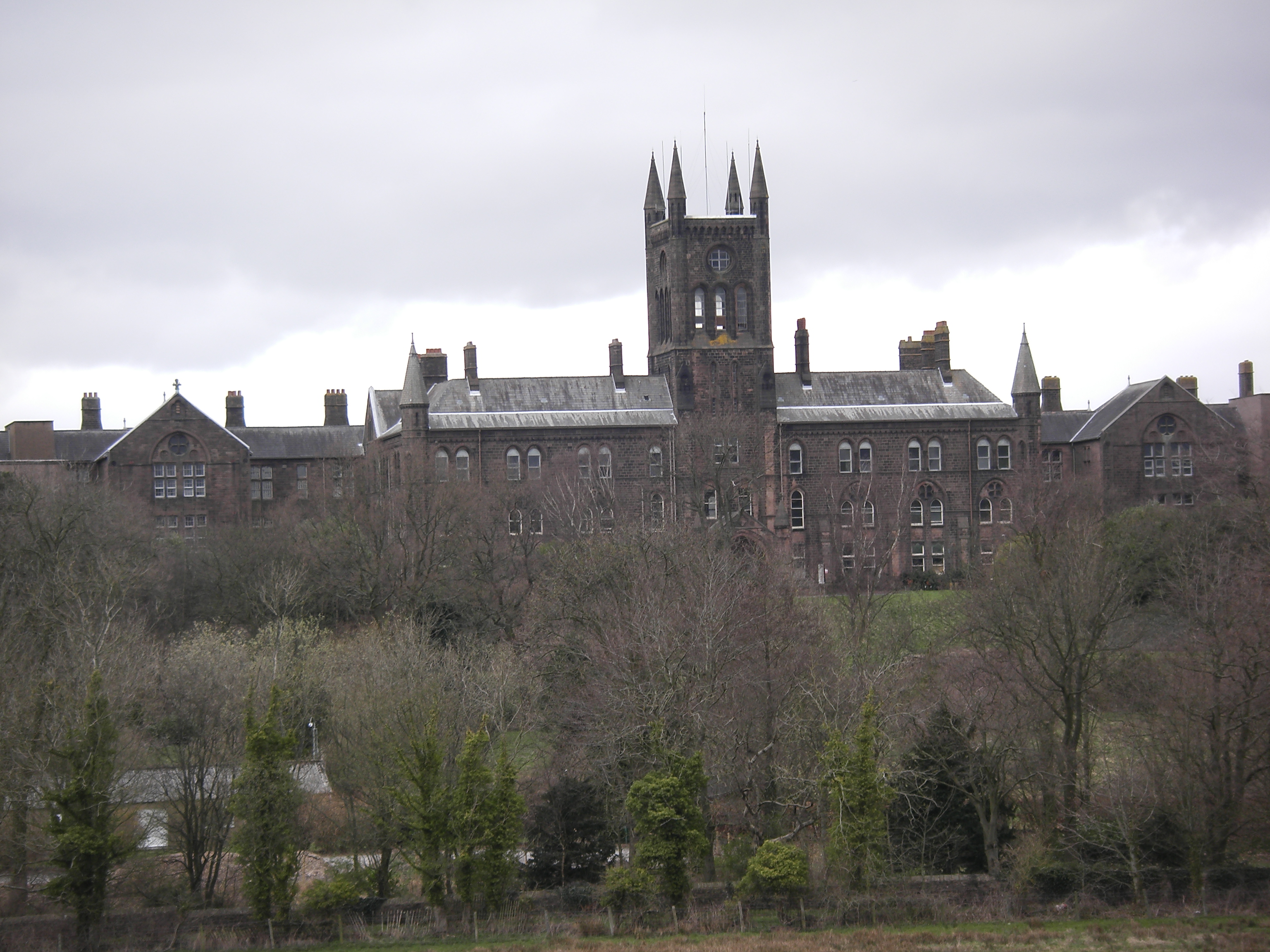 Photograph of Lancaster Moor Hospial